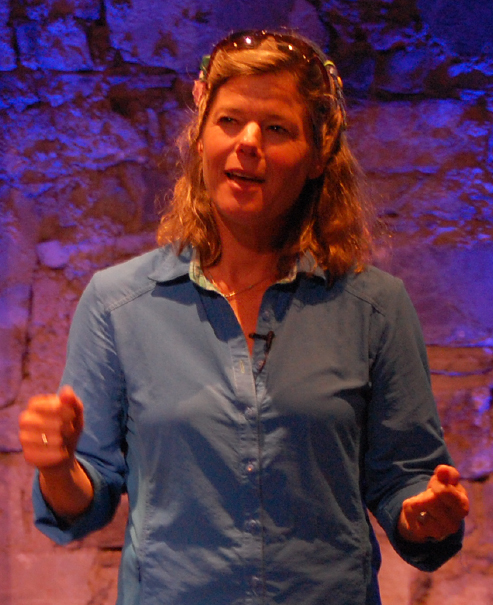 tierney5